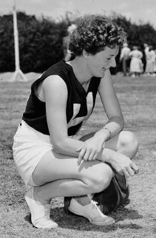 Athletes in the 1950 British Empire Games, Doris Parker of Waikato and Sylvia Cheeseman of England, on the track at Eden Park. Shows Cheeseman hammering her starting blocks into place. Photograph taken in February 1950 by an Evening Post photographer.